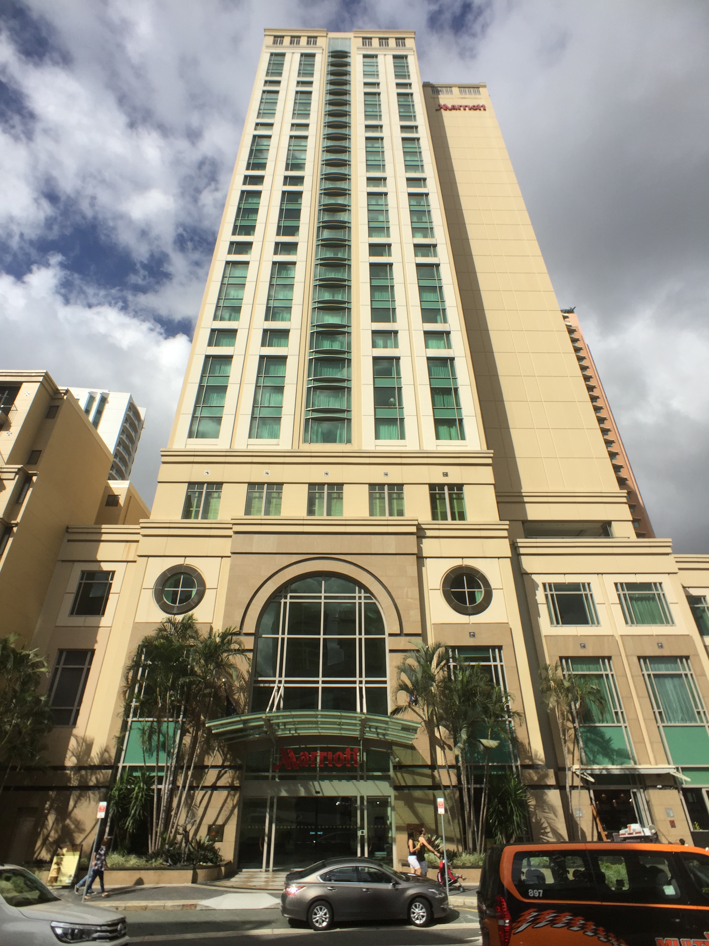 Brisbane Marriott Hotel, 515 Queen Street, Brisbane Queensland